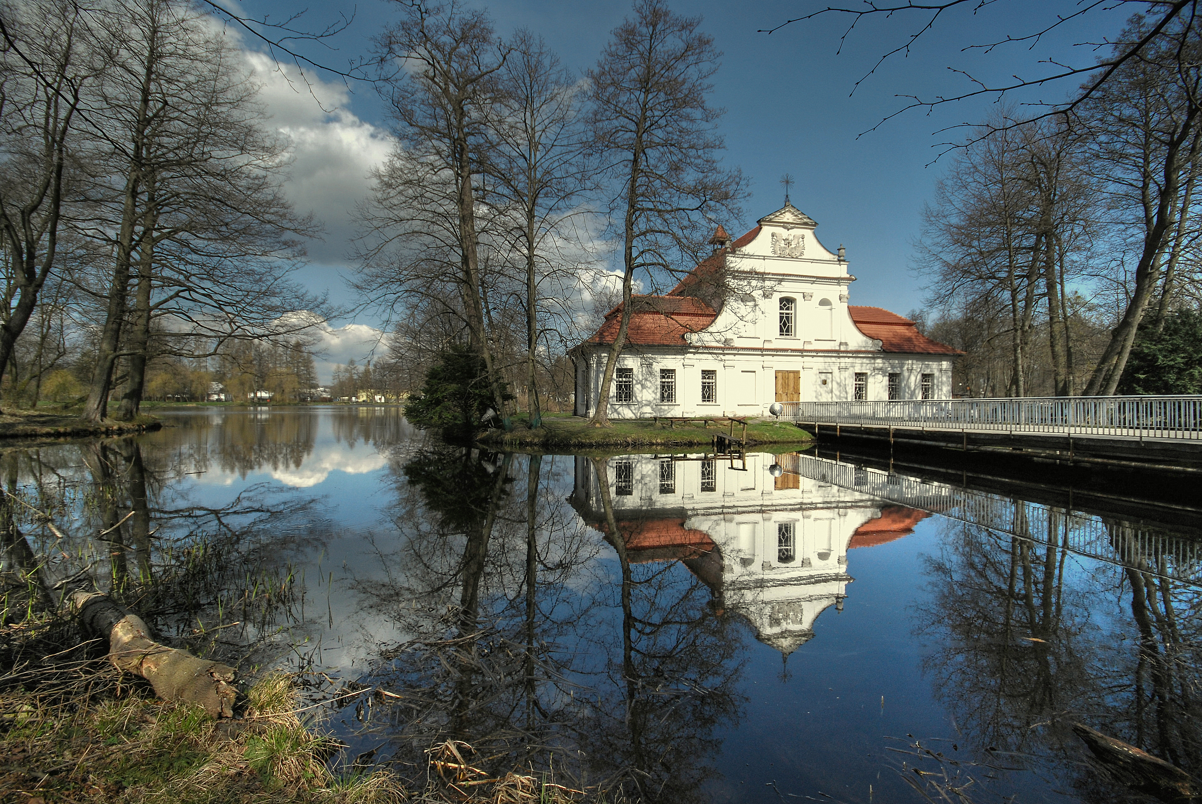 Saint John of Nepomuk Church "On the Island" (XVIII-XX century) in Zwierzyniec, Lubelskie Province, Poland.